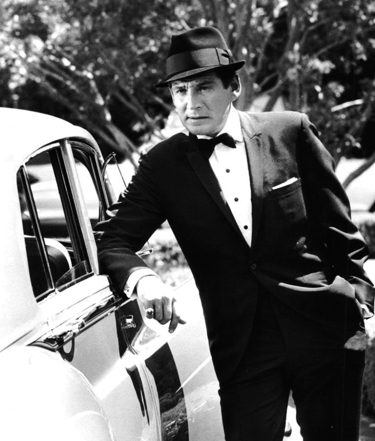 Publicity photo of Gene Barry as Amos Burke from the television program Burke's Law.